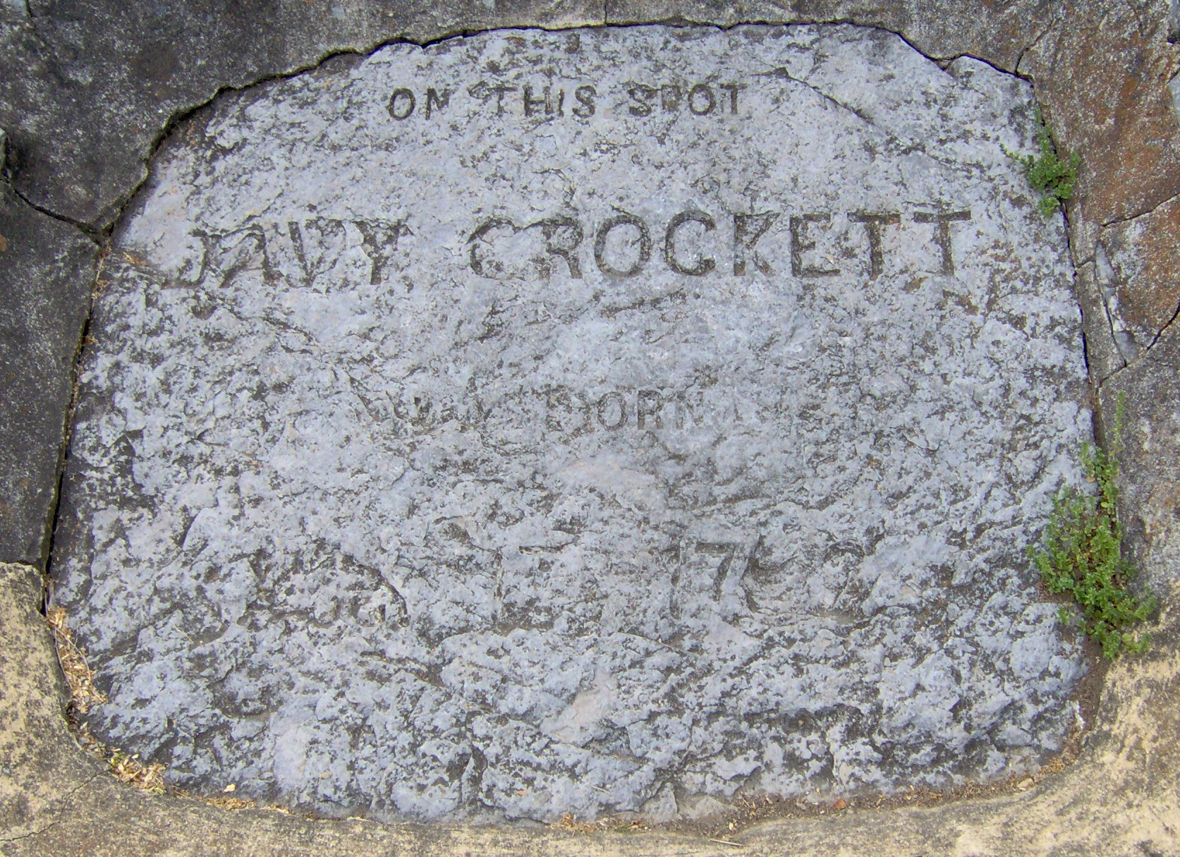 Inscribed stone at Davy Crockett Birthplace State Park in Greene County, Tennessee, in the southeastern United States. The stone is believed to have been the footstone to the original cabin where Crockett was born in 1786. The stone was probably inscribed in the late 1880s. The inscripton reads: ON THIS SPOT DAVY CROCKETT WAS BORN AUG 17 1786